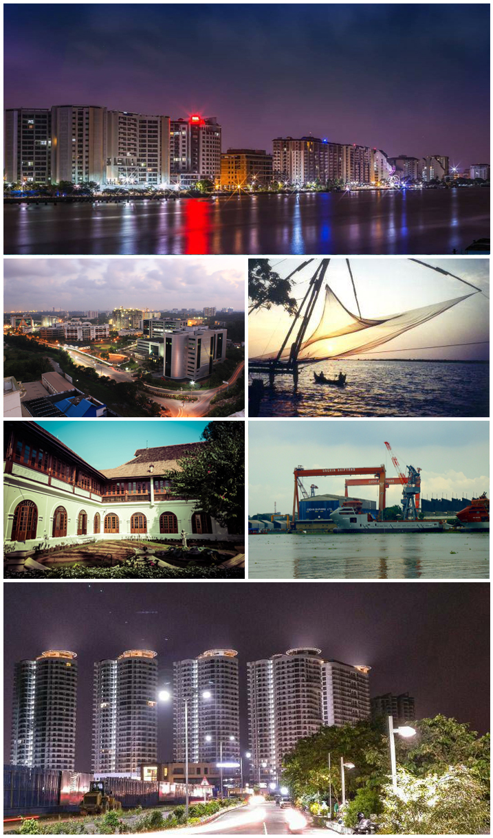 Clockwise from top: 1) Marine Drive; 2) Chinese fishing nets at Fort Kochi; 3) Cochin Shipyard; 4) Queen's Way; 5) Hill Palace; 6) Infopark